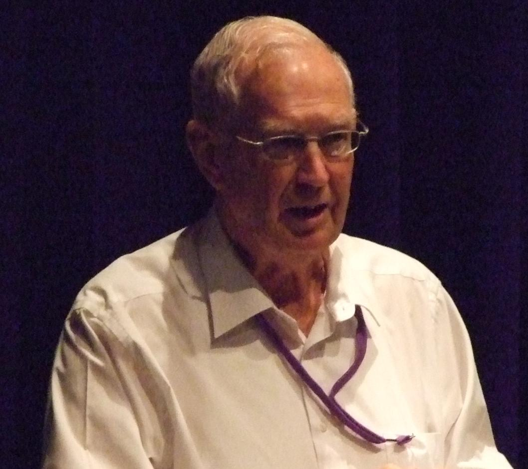 Glen Hill speaking at TAM London. Hill is the son of of Elsie Wright, one of the girls that photographed the Cottingley Fairies.